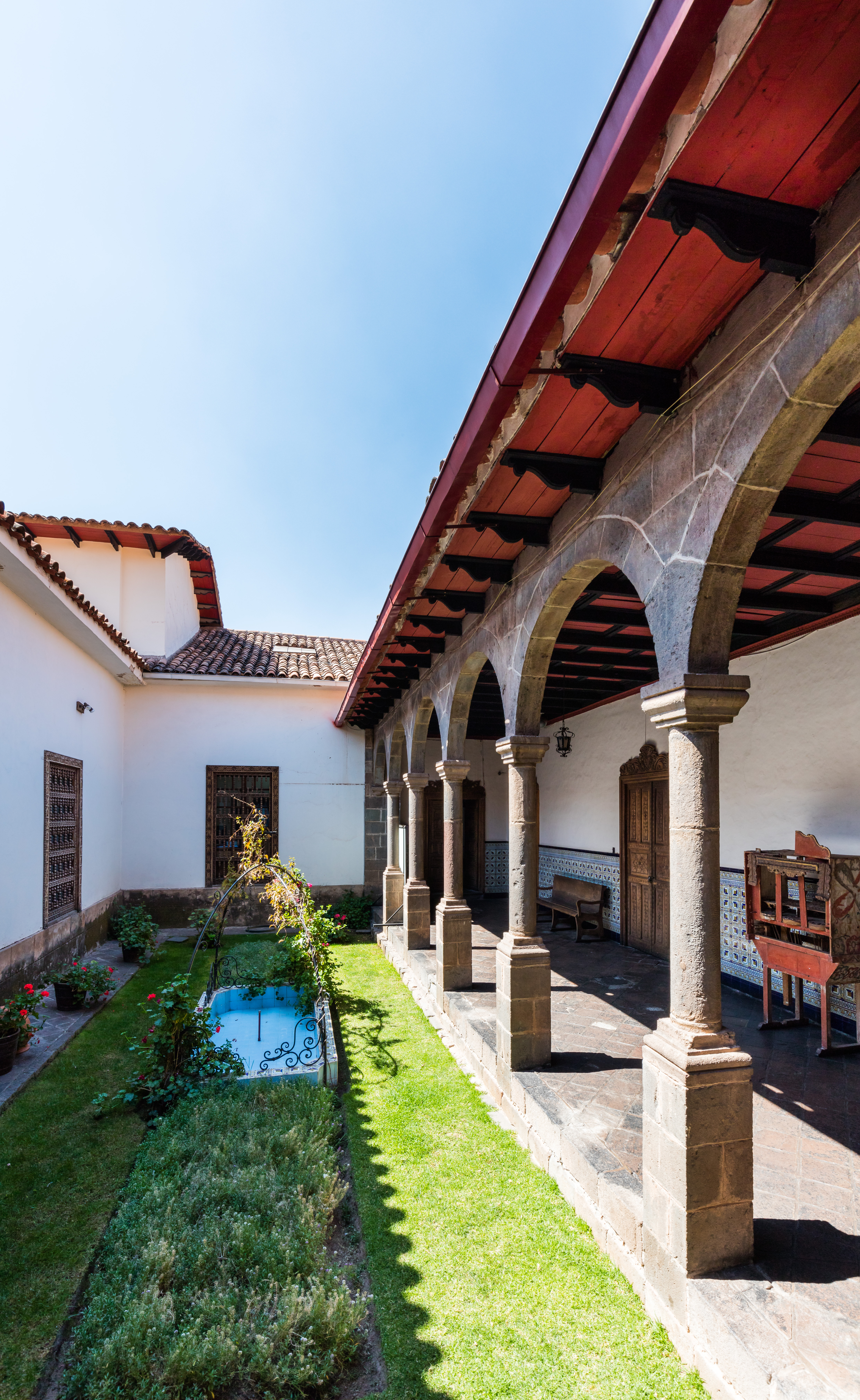 Archbishopric religious art museum, Cusco, Peru